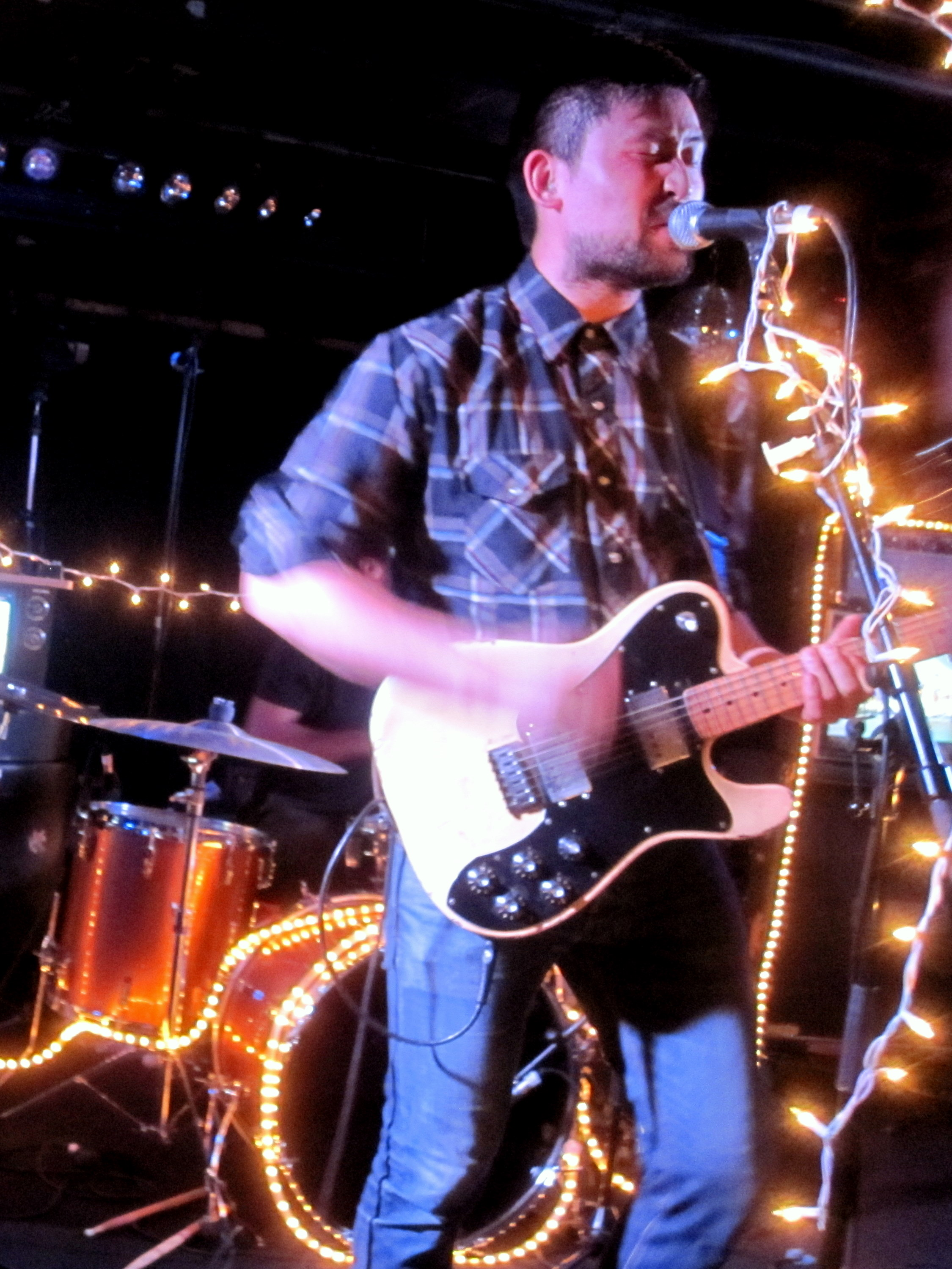 In Medias Res frontman during a show at the Biltmore Cabaret in Vancouver, BC, on July 16, 2011.